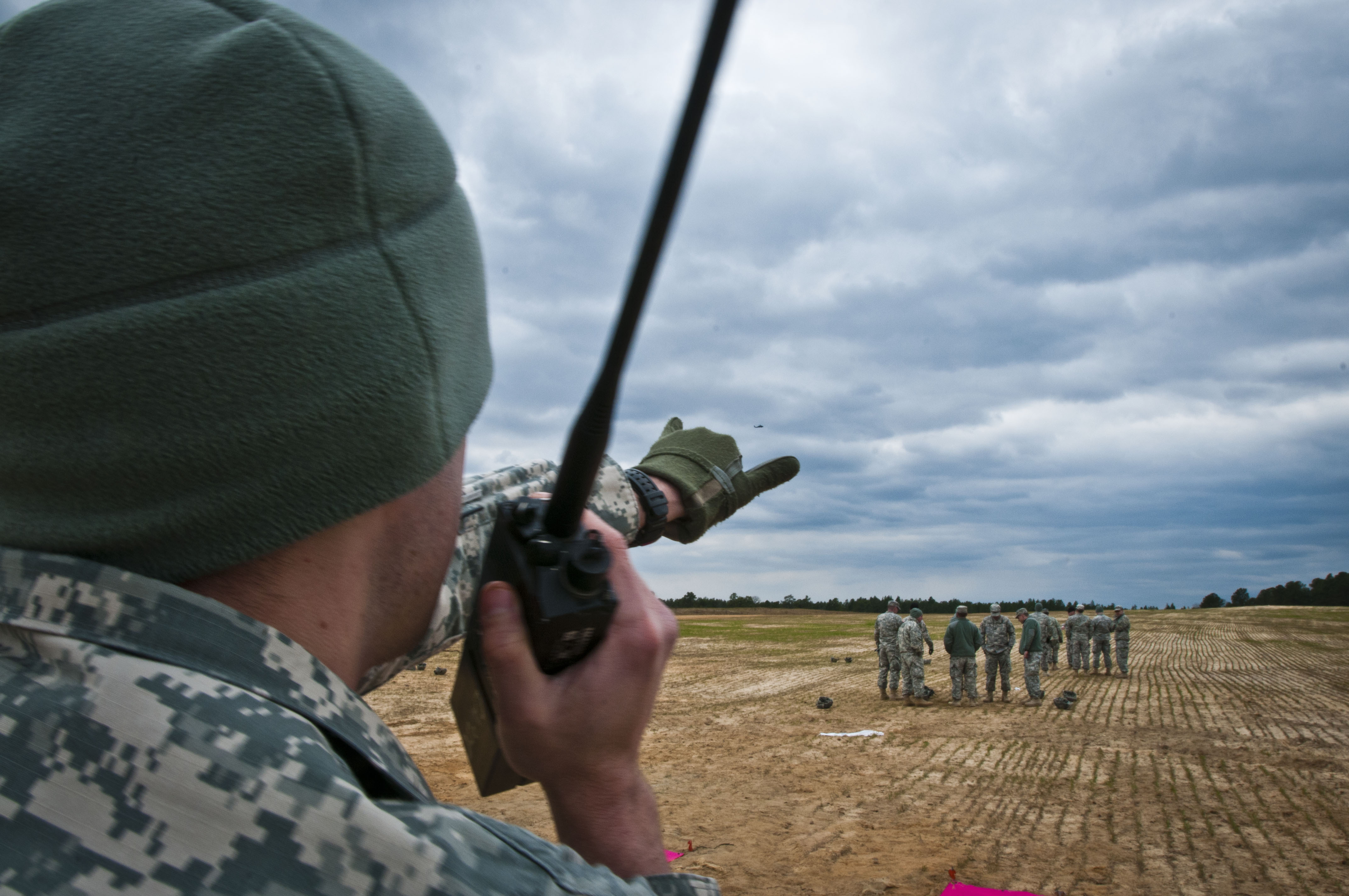 U.S Army Civil Affairs & Psychological Operations Command (Airborne) Soldiers earn their Pathfinder Badge at Fort Bragg, N.C., thanks to the National Guard Warrior Training Center Mobile Training Team. (U.S. Army photo by Staff Sgt. Felix Fimbres, USACAPOC PAO)